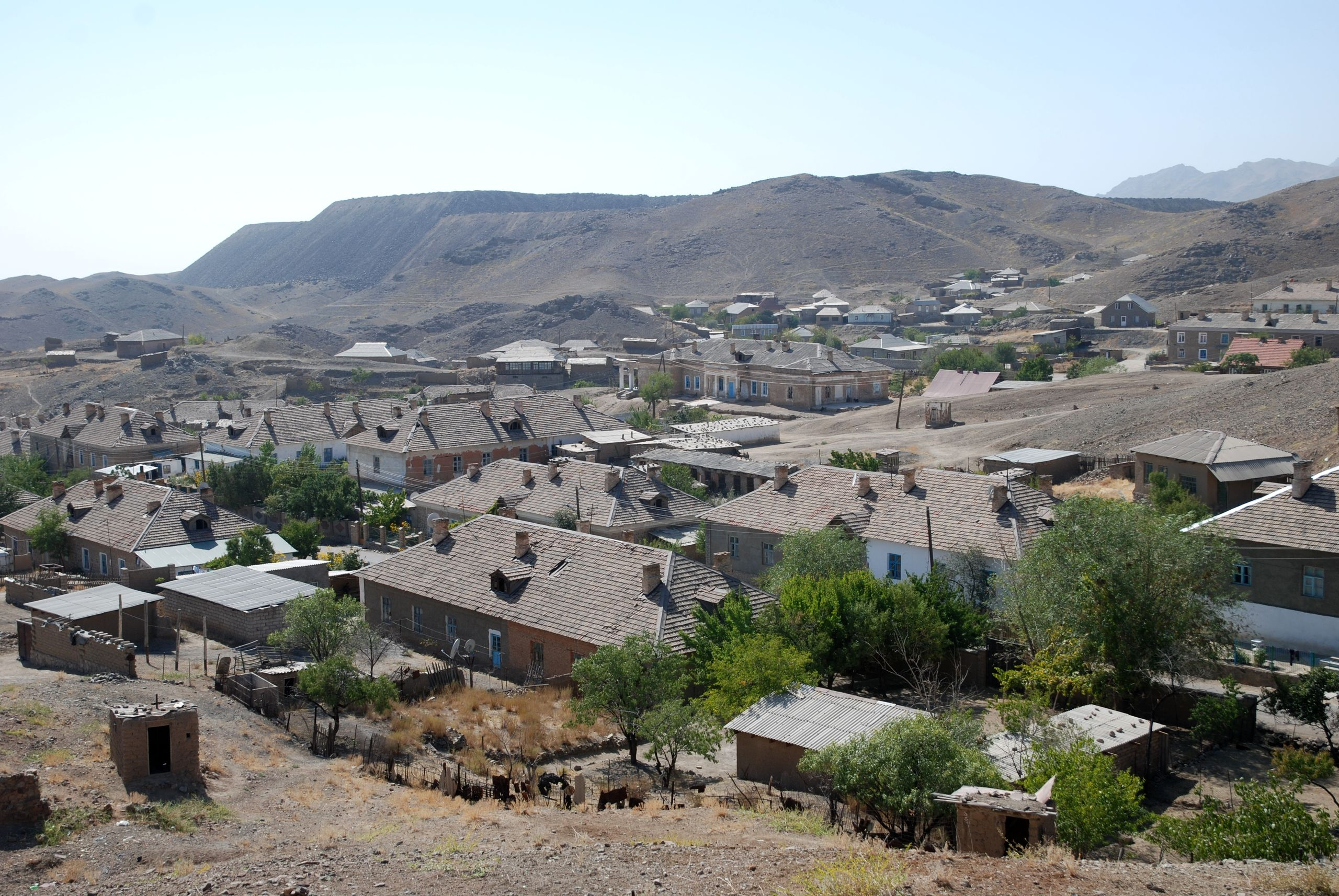 Old Taboshar, east of Taboshar, Sughd province, Tajikistan